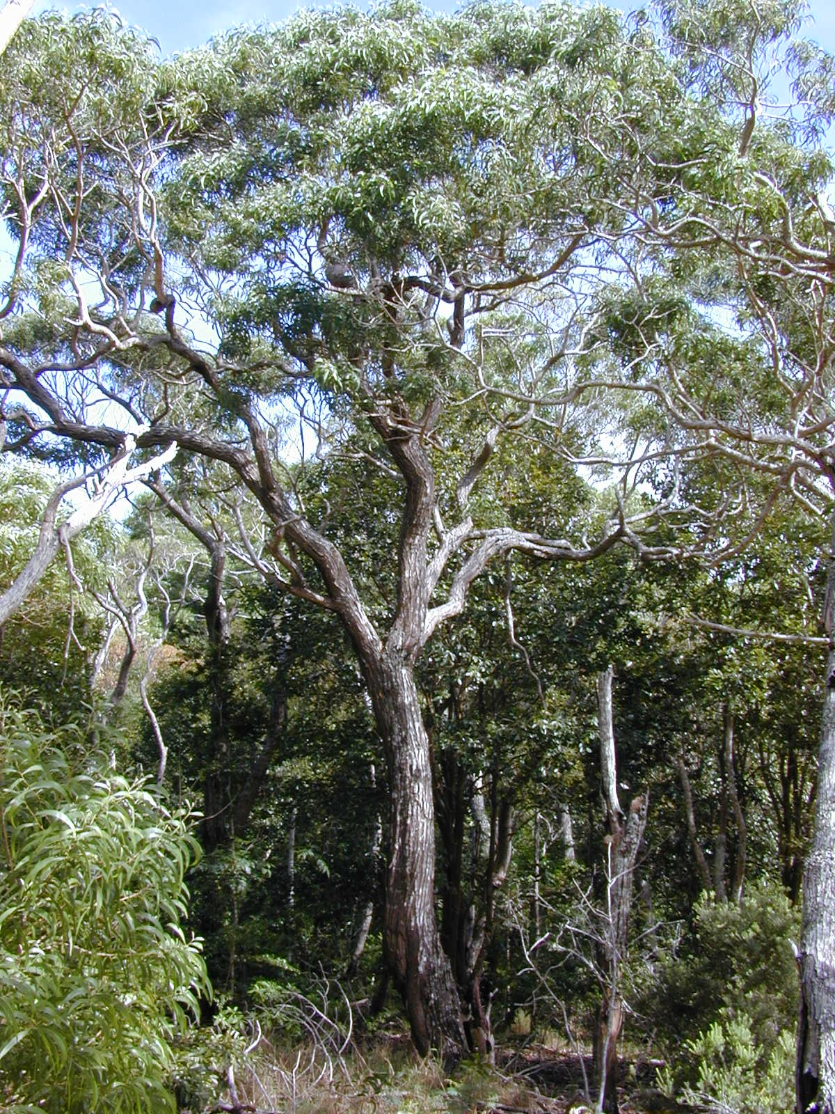 Acacia koa (habit). Location: Maui, Makawao forest reserve